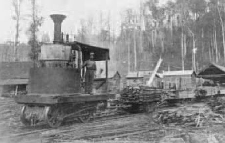 Ex-Victorian Railways Rowan car engine unit regauged to 3ft 6in at Sanderson’s Barwon Mill c. 1908.